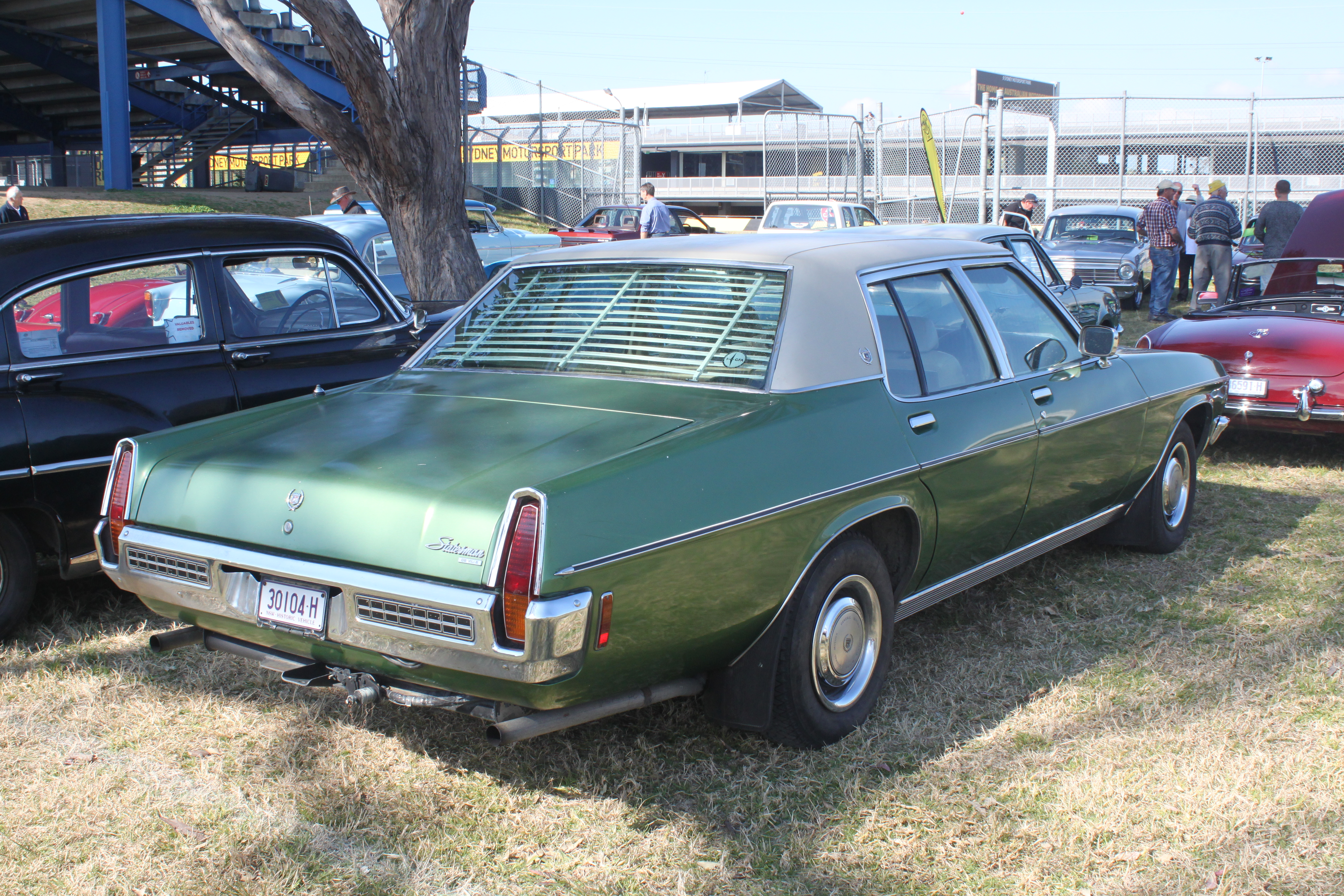 Shannon's Classic, Eastern Creek, NSW August 2015